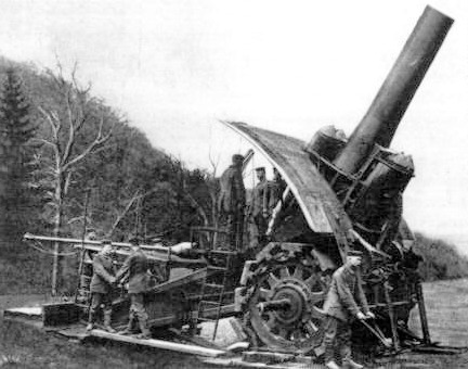 Propaganda photograph of an emplaced prototype Big Bertha howitzer.